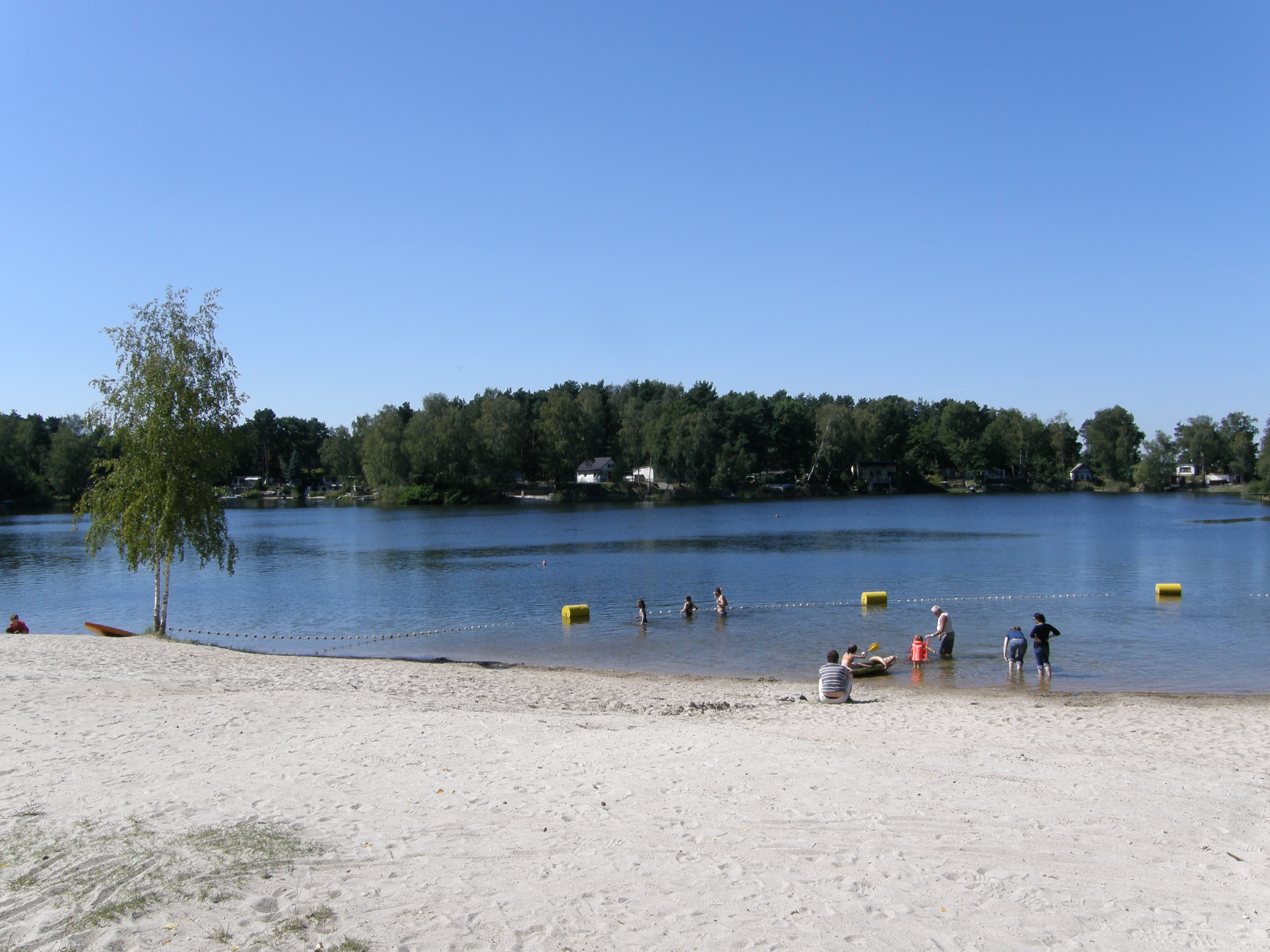 Bad Erna - Small Lakes which were lignite deposits